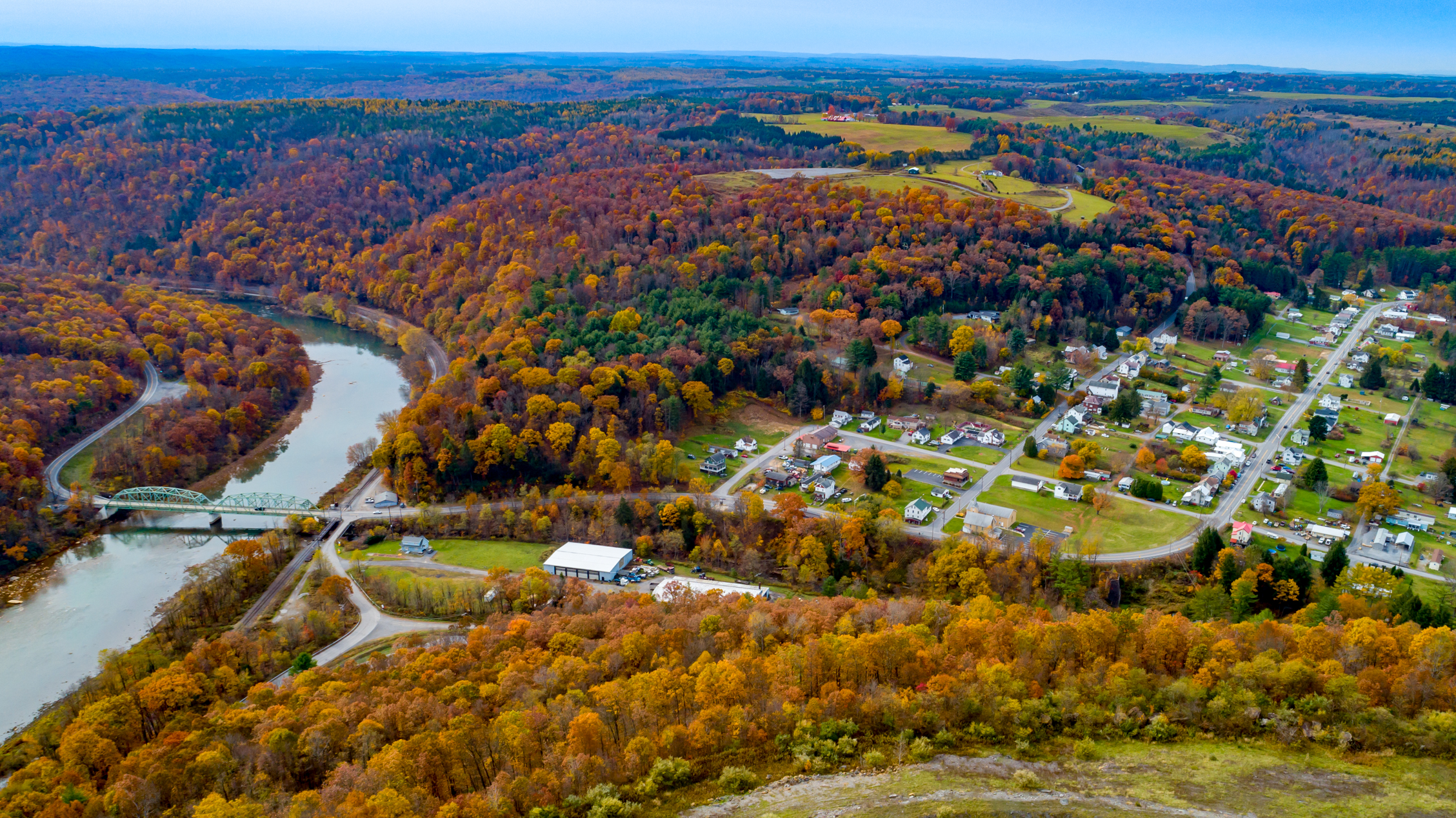 Aerial photograph of Karthaus, Pennsylvania. This small town is along the West Branch of the Susquehanna River in central Pennsylvania.